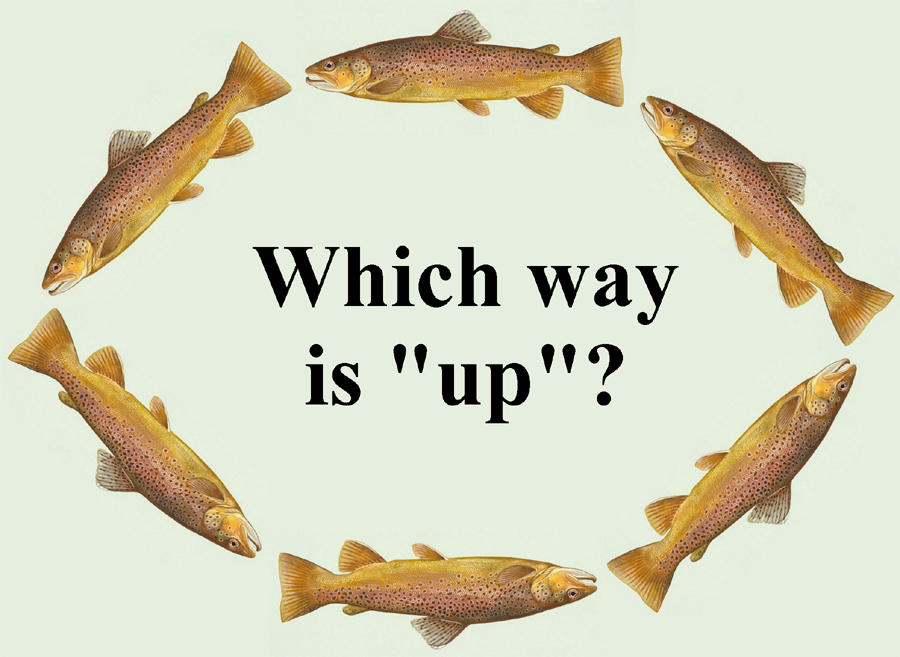 My modification of Bachforelle_Zeichnung.jpg by user:Nordelch